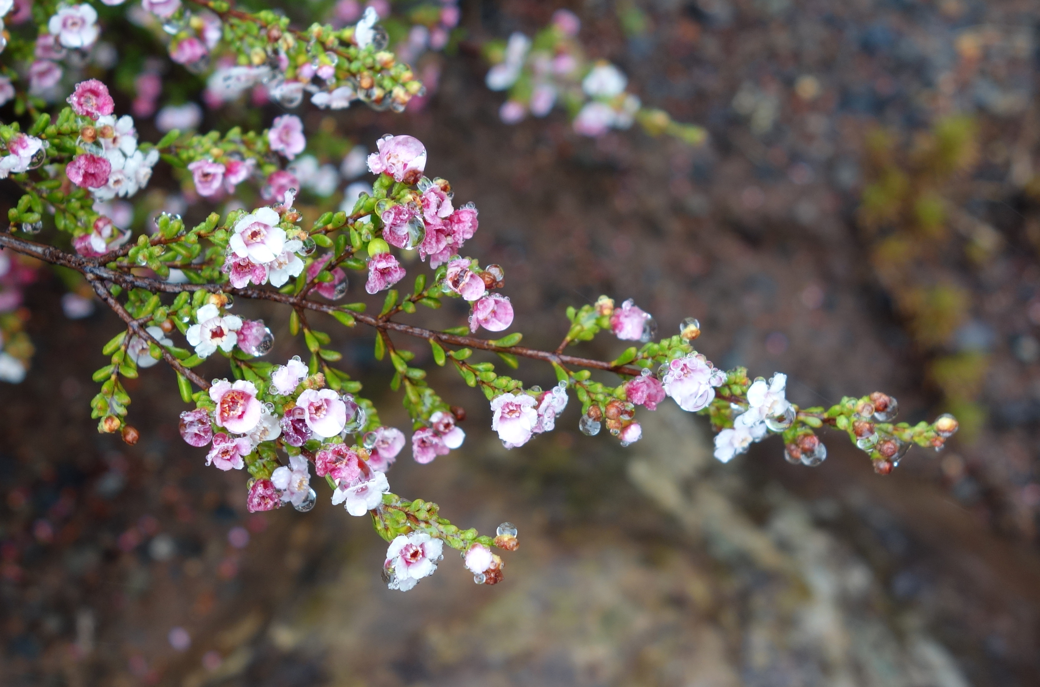 Botanical specimen in the UC Santa Cruz Arboretum at the University of California, Santa Cruz - 1156 High Street, Santa Cruz, California, USA.